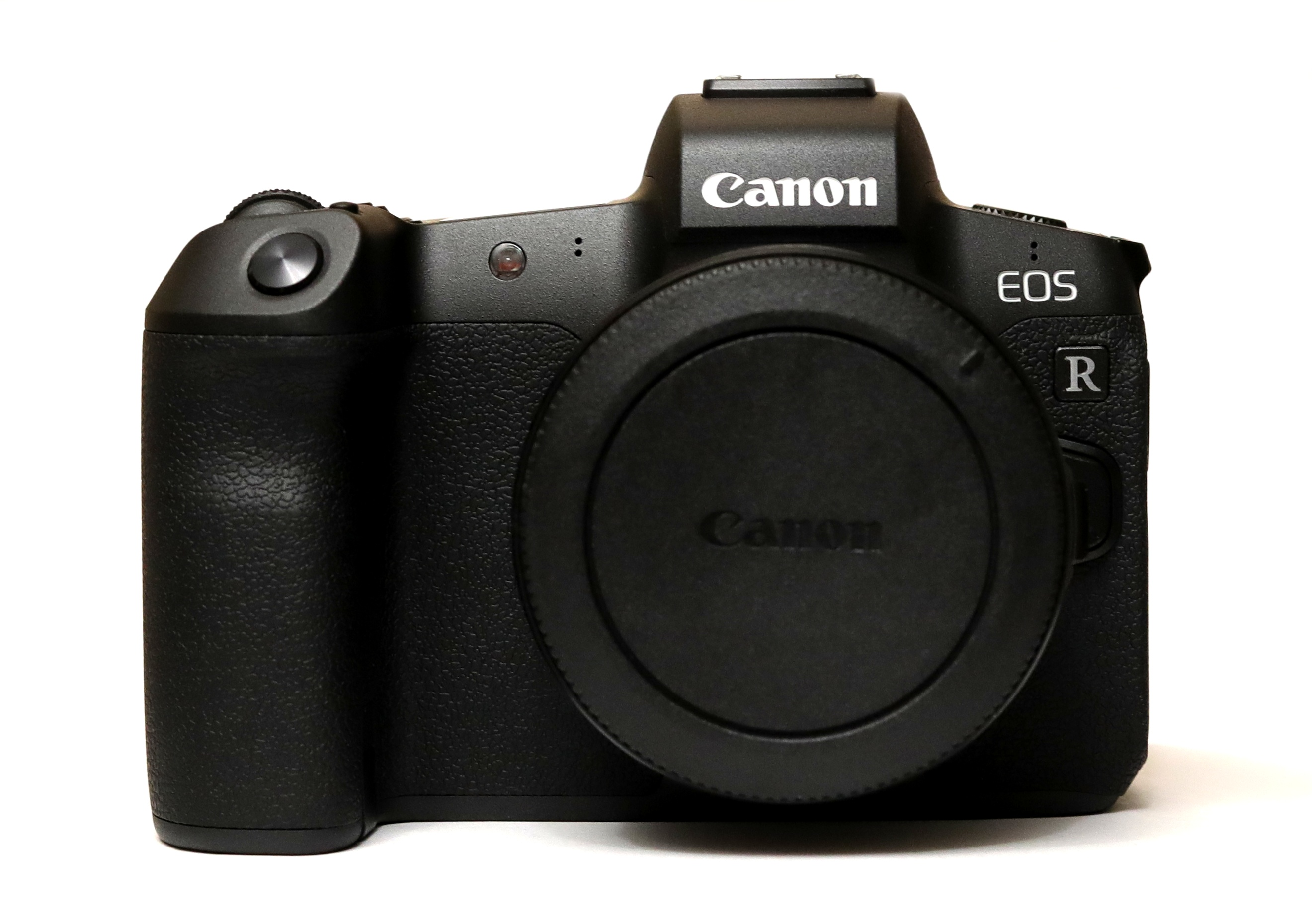 Canon EOS R digital camera body with EF lens adapter.